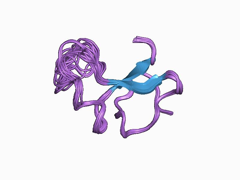 Cartoon representation of the molecular structure of protein registered with 1boe code.